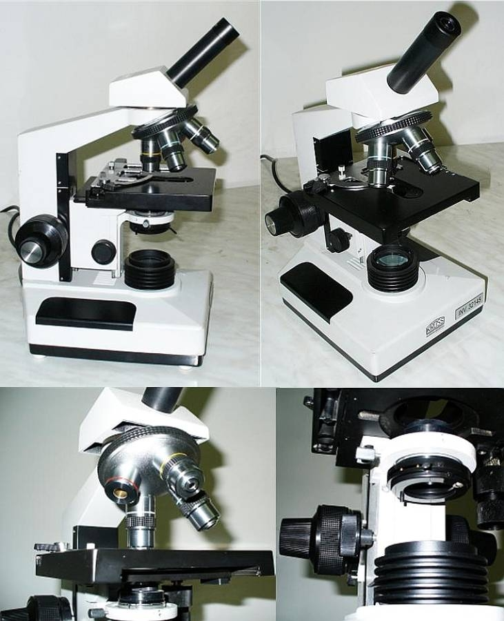 Optical microscope.